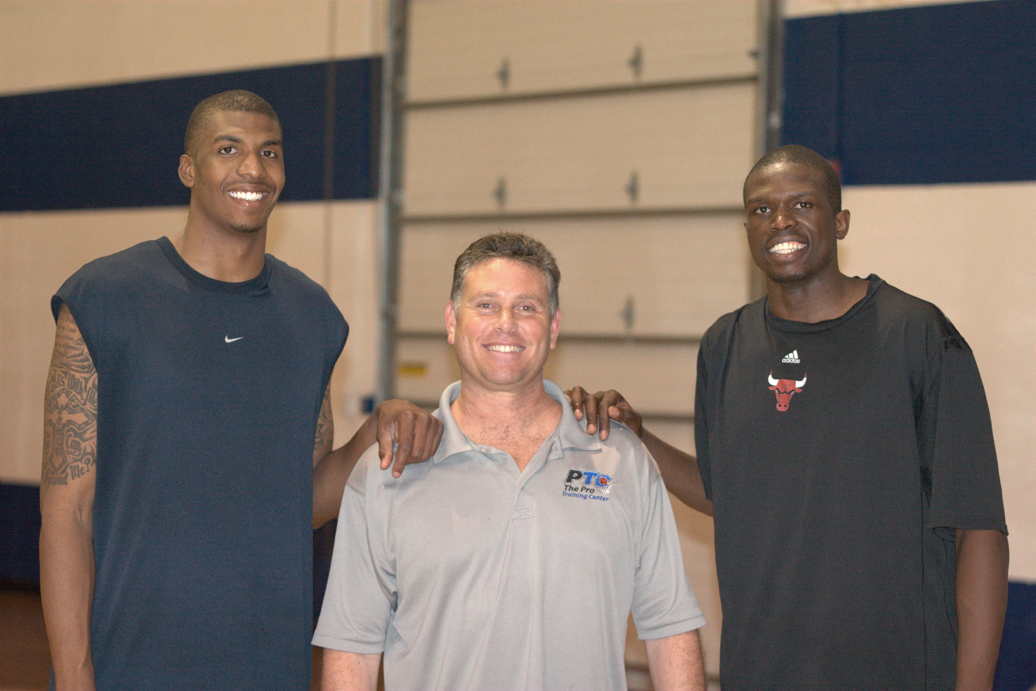 Picture of Coach David Thorpe (center) with NBA players Tyrus Thomas (left) and Luol Deng (right).